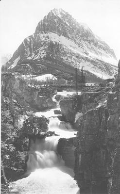 Title: Black and white photo of Mt. Rising Wolf and waterfall, Glacier National Park, Montana Creator: Hileman, T. J. Date: Unknown Description: Photo of a waterfall in front of a single, tall snow covered rocky mountain, a wooden bridge spans the gorge. Written on verso: Mt. Rising Wolf • I represent Montana State University Library and we are releasing this image into the Creative Commons. Keywords: glacier national park, mountains, waterfalls, rivers and streams, bridges Object ID: 219